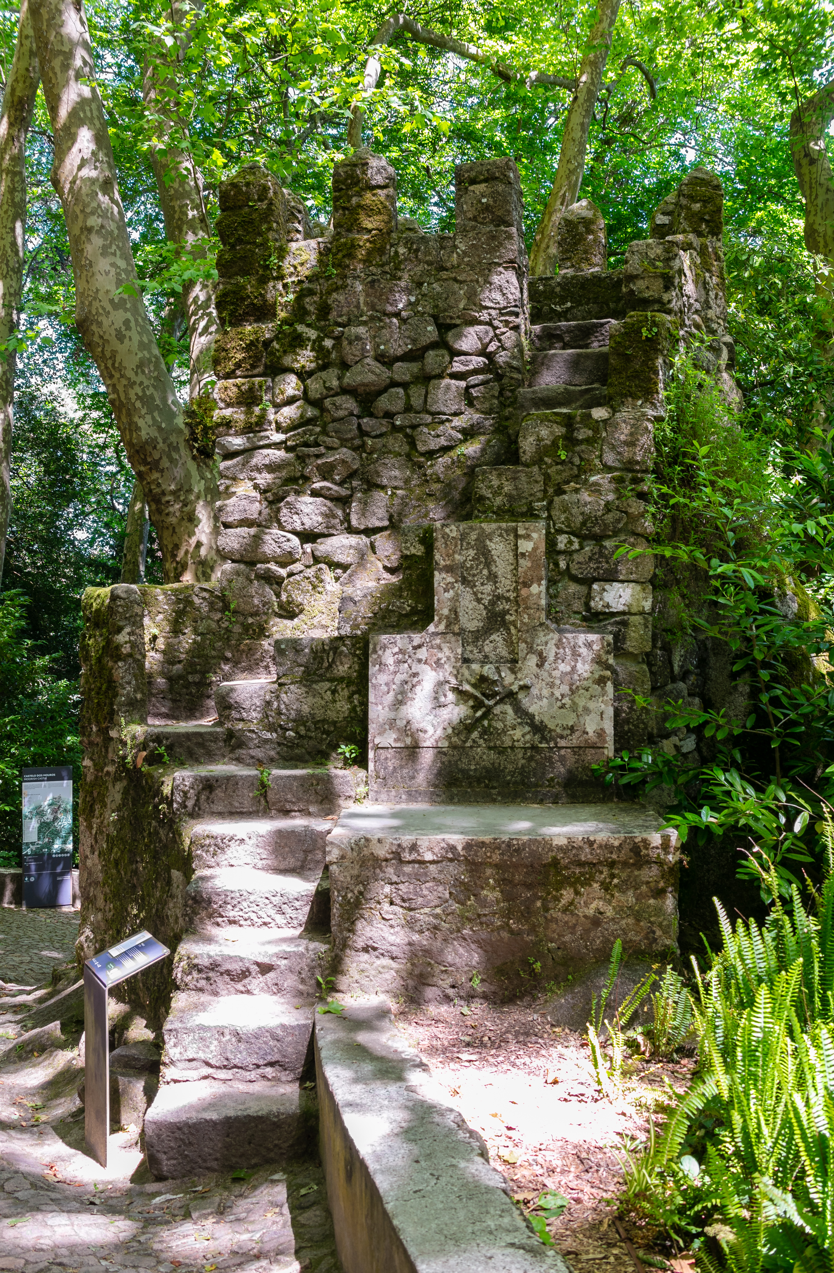 Castelo dos Mouros, Sintra, Portugal